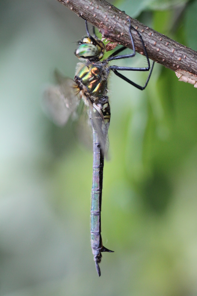 Balkan Emerald (Somatochlora meridionalis), duga resa